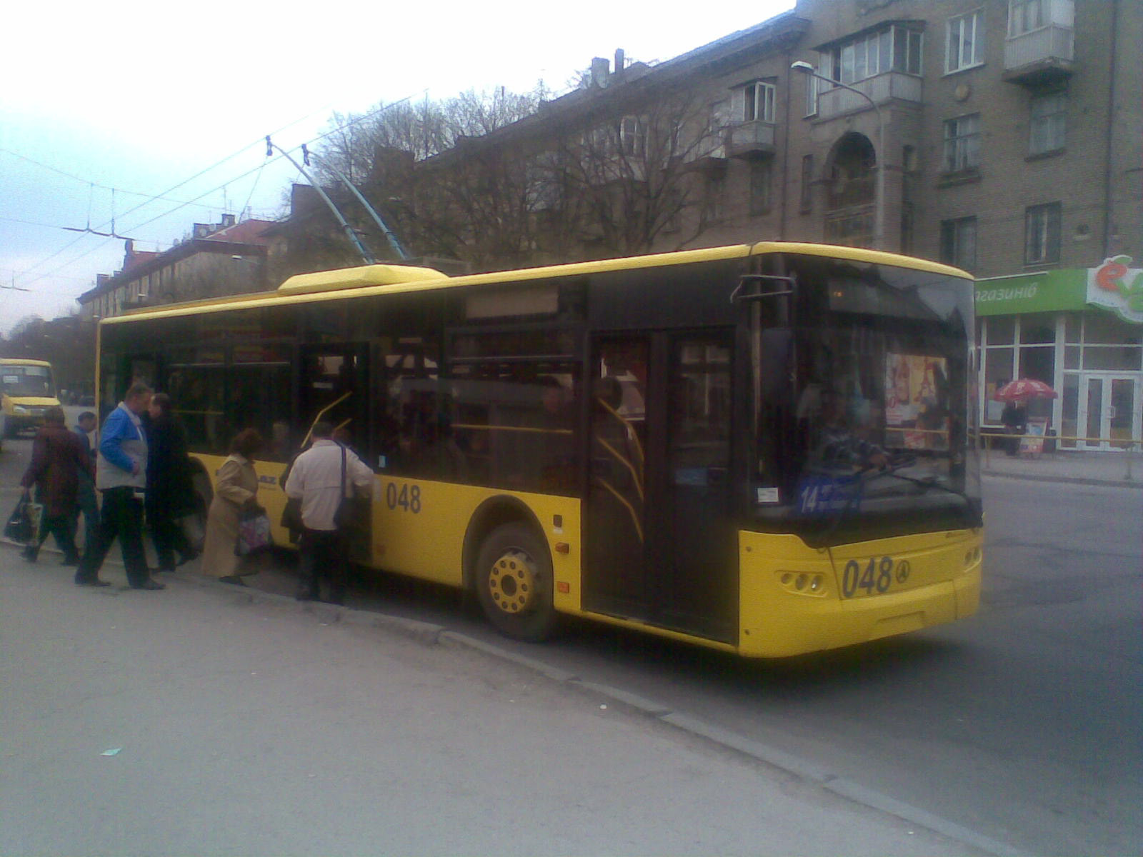 Trolleybuses in Zaporizhzhya